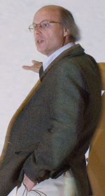 Bjarne Stroustrup at Kent State University on November 9, 2007 at an ACM meeting.